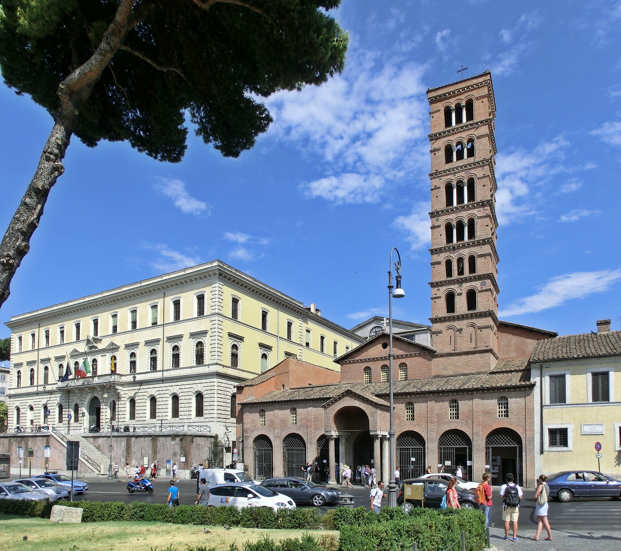 Basilica of Saint Mary in Cosmedin at Piazza della Bocca della Verità, Rome.